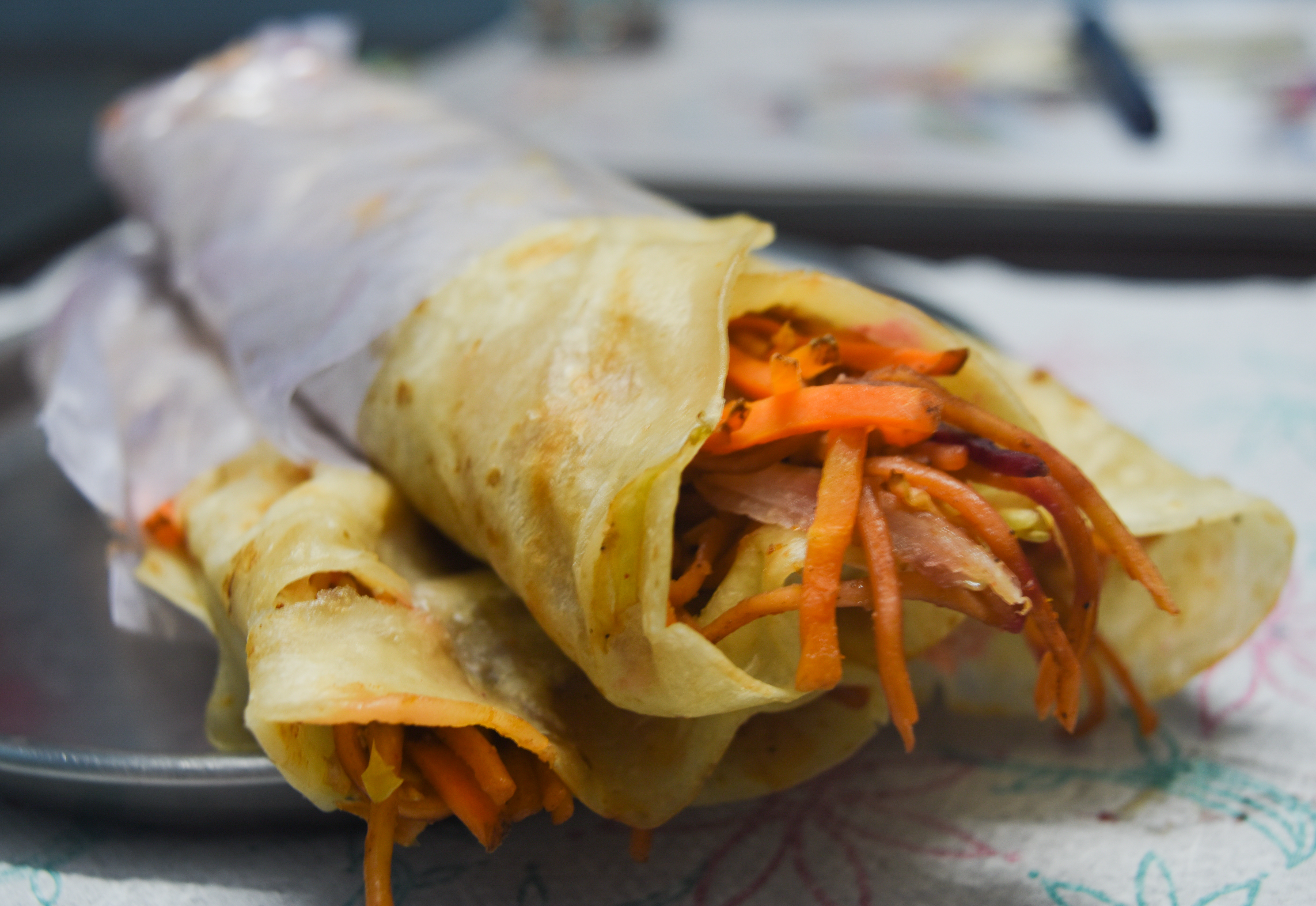 Kolkata Rolls are very famous in Kolkata City.